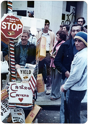 Scott Smith pushing shopping cart with Castro Camera signs at Gay Freedom Day Parade on Market Street. Photographed by Harvey Milk